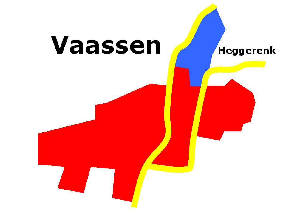 Location map of Heggerenk in Vaassen.